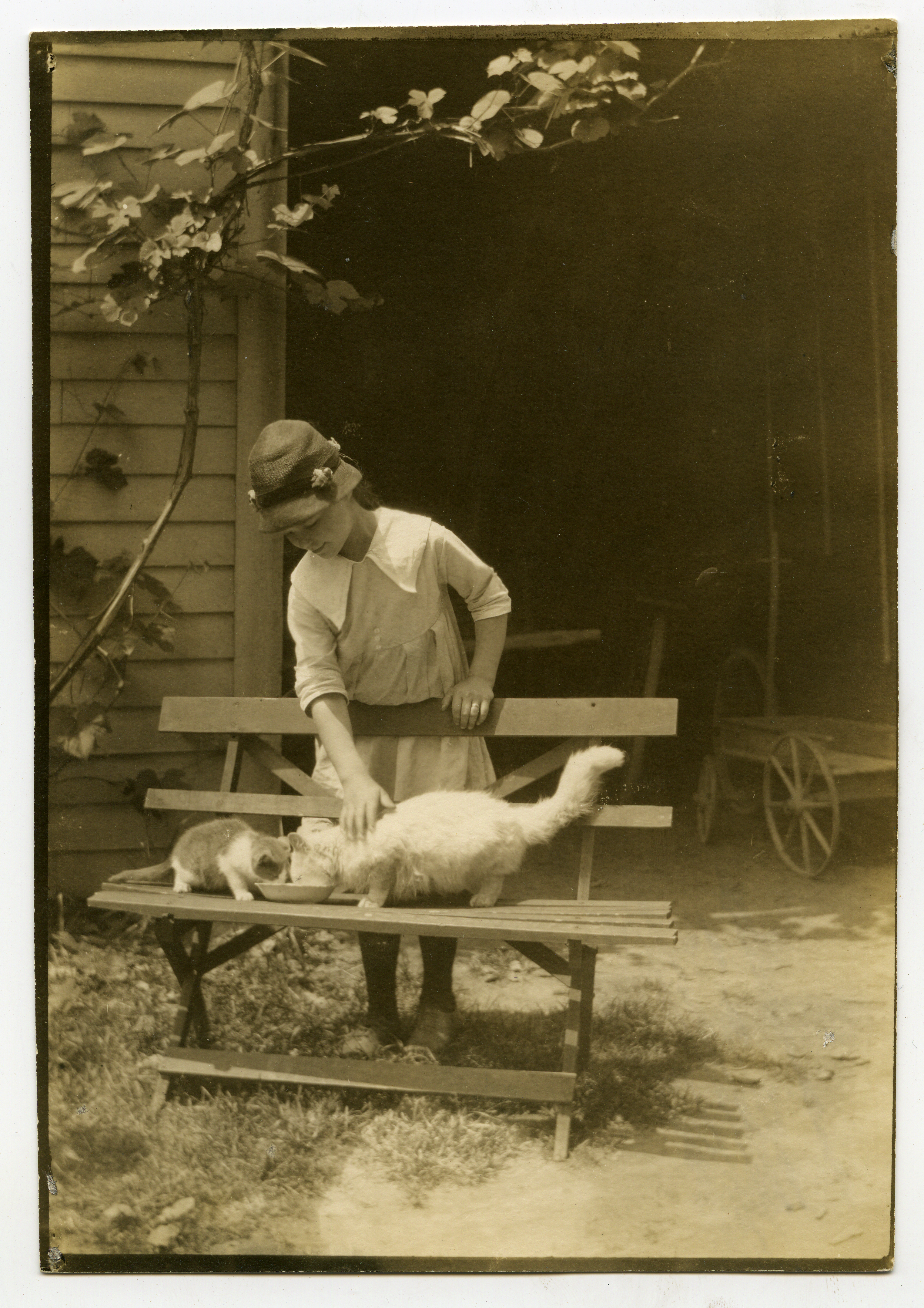 A cat and a kitten are eating from the same pan on a bench. A girl, identified as Katherine Johnson, stands behind the bench with one hand on the cat. A part of a house is visible behind them with a wagon visible inside an attached shed.